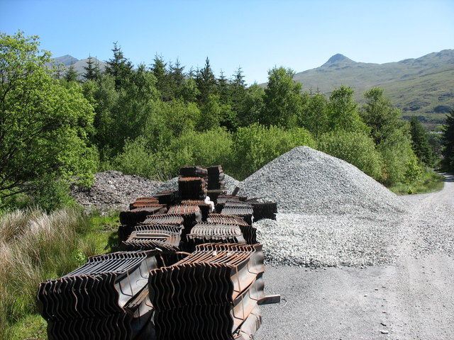 Railway Construction Depot on a Forest Road Lay-By. The familiar peak in the background is Yr Aran.